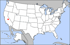 Locator map of Kings Canyon National Park and Sequoia National Park in the Sierra Nevada of California.